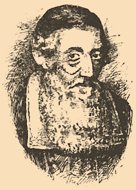 Illustration from Brockhaus and Efron Jewish Encyclopedia (1906—1913)